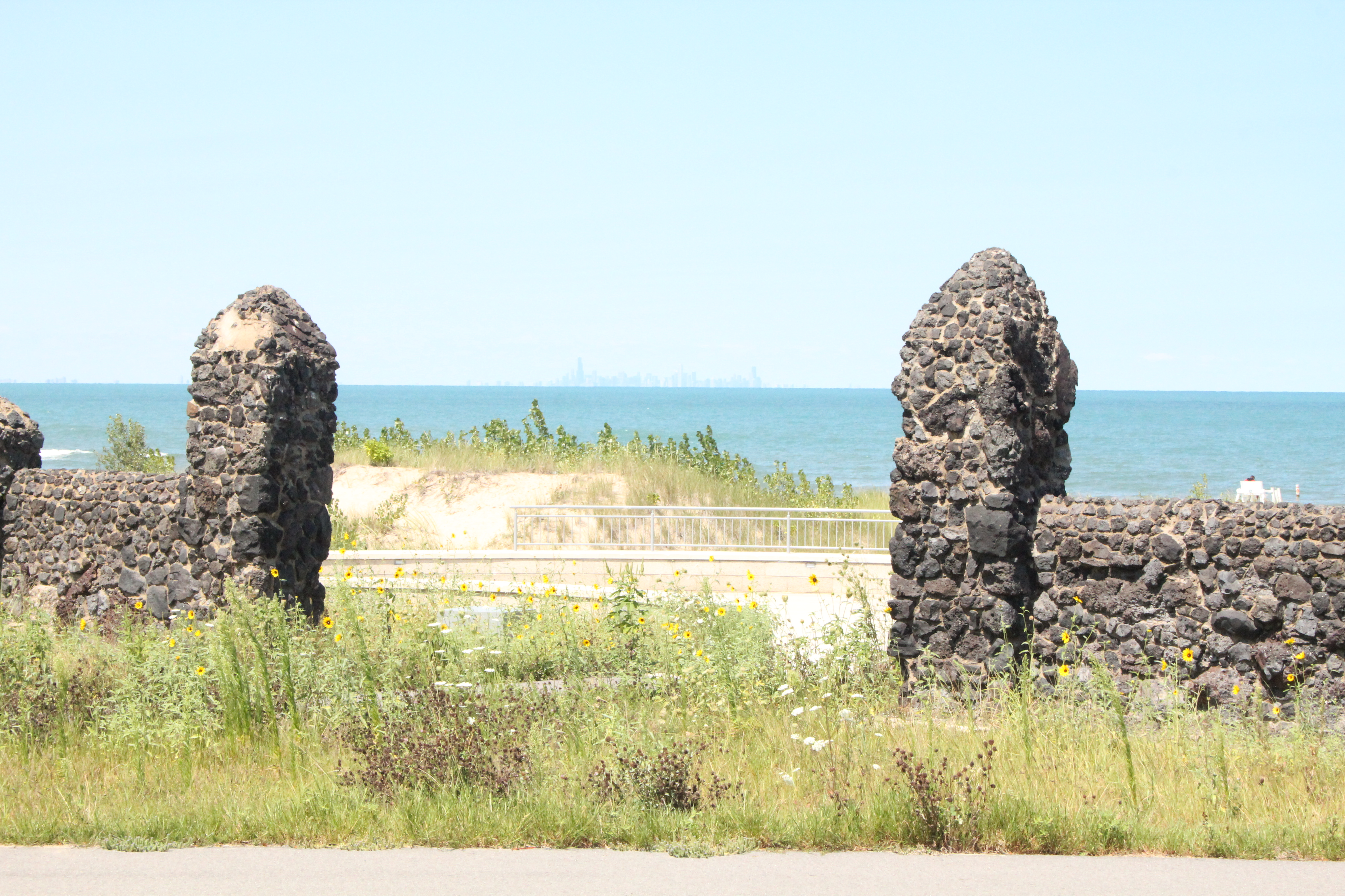 Lake Michigan shoreline in Marquette Park, Gary, Indiana. The Chicago skyline is visible in the distance across the lake, framed by the old stone gate.